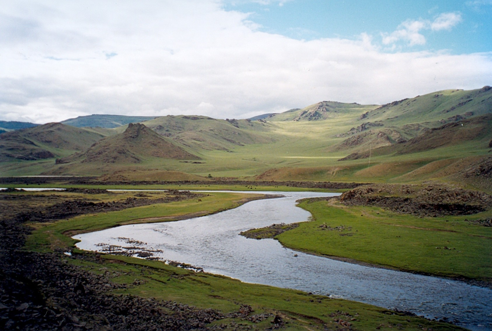 Landscape of Tariat, Arkhangai Province, Mongolia.